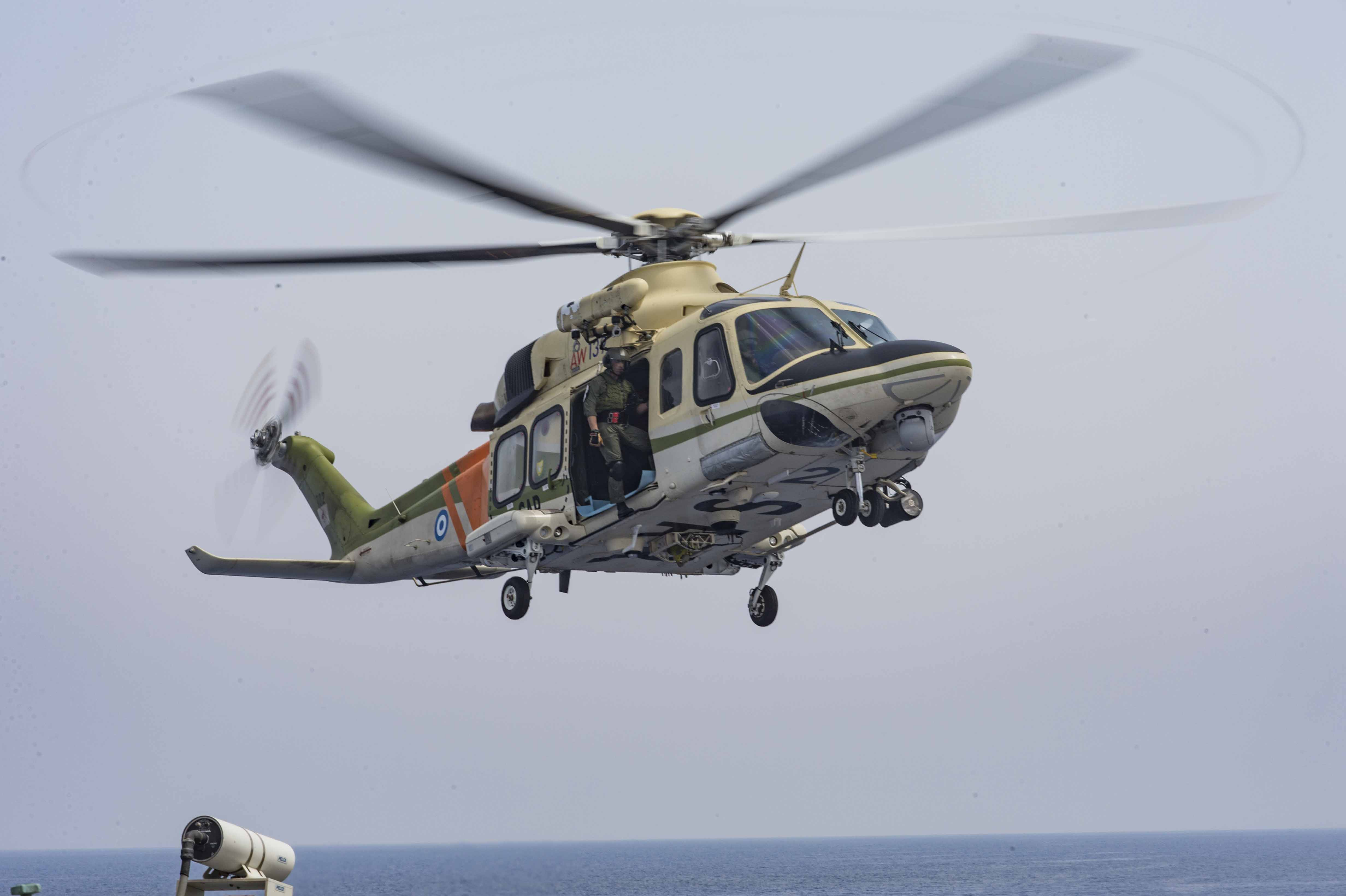 A Cyprian 460-SAR SQ Search and Rescue helicopter departs to the USS Stout (DDG 55) during a simulated search and rescue exercise June 4, 2016. Stout, an Arleigh Burke-class guided-missile destroyer, deployed as part of the Eisenhower Carrier Strike Group, is conducting naval operations in the U.S. 6th Fleet area of operations in support of U.S. national security interests in Europe.